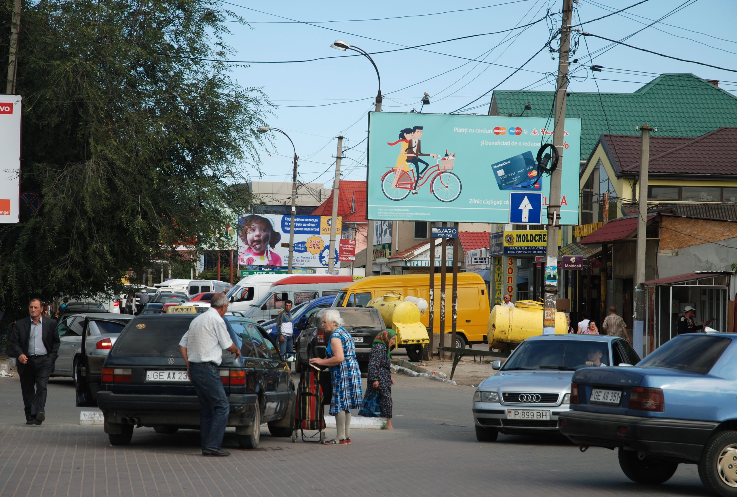 Comrat, market